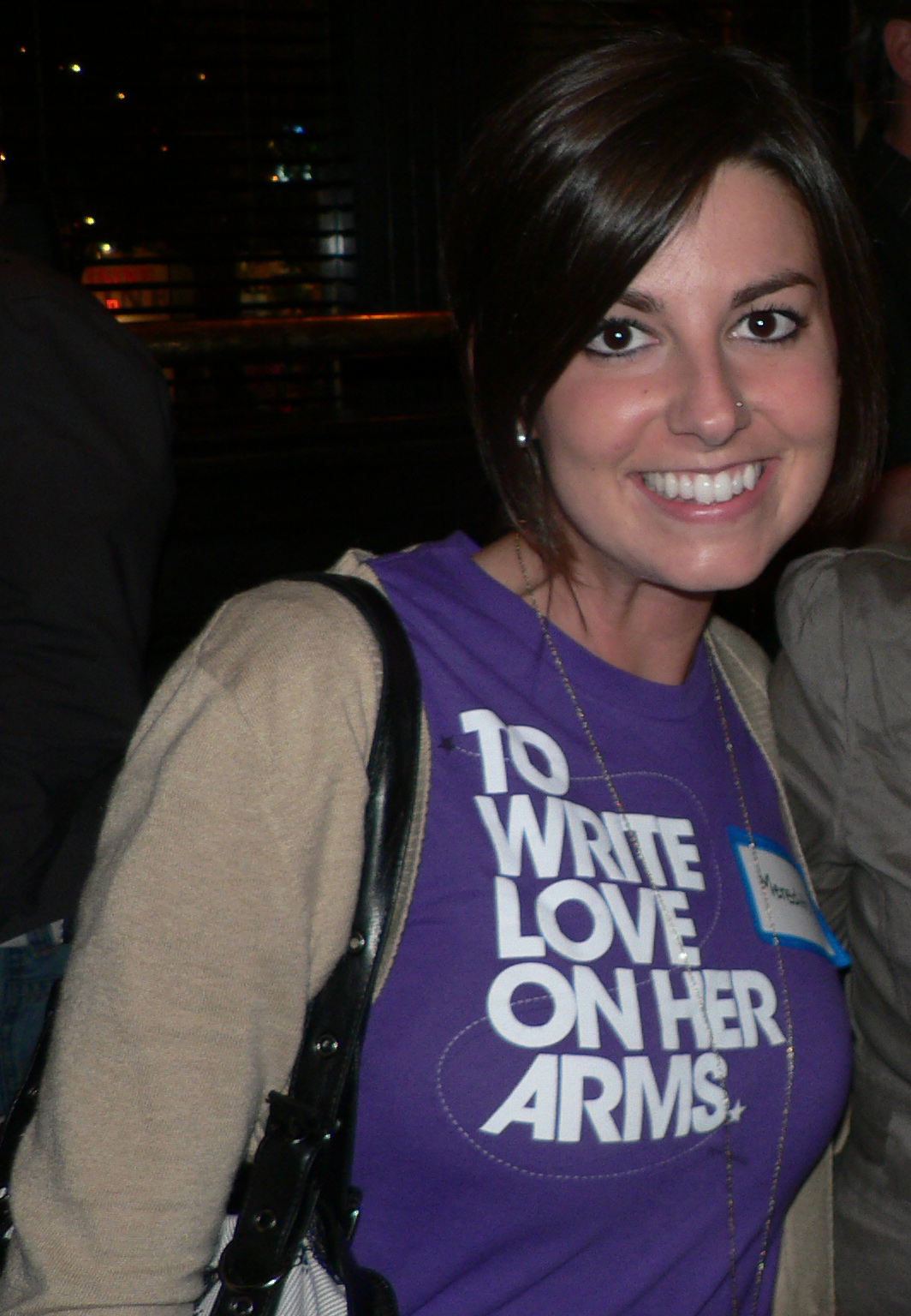 Singer Meredith Andrews in a group photograph at the 2008 GMA Week.